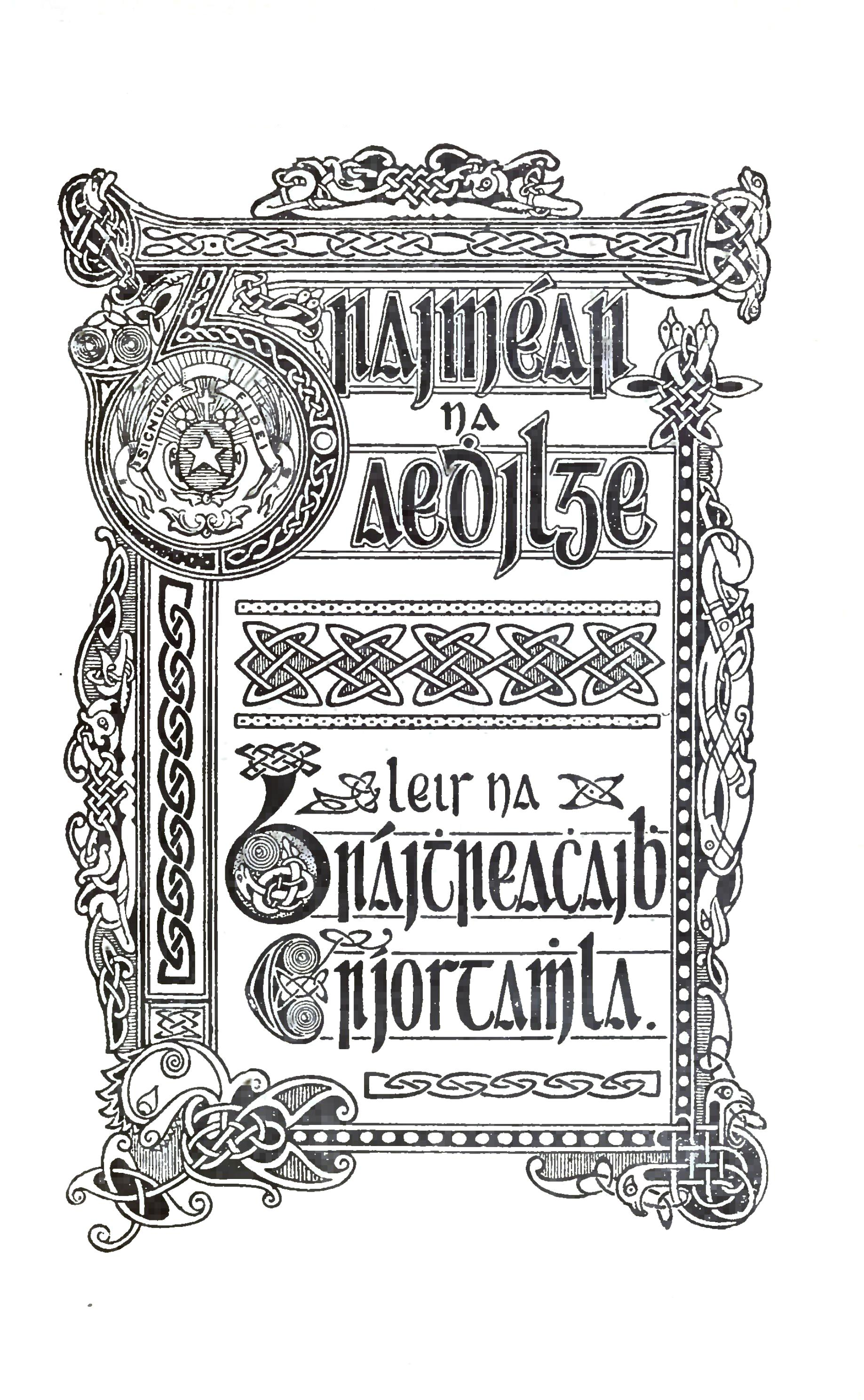 The cover of the 1906 edition of Graiméar na Gaedhilge by the Christian Brothers